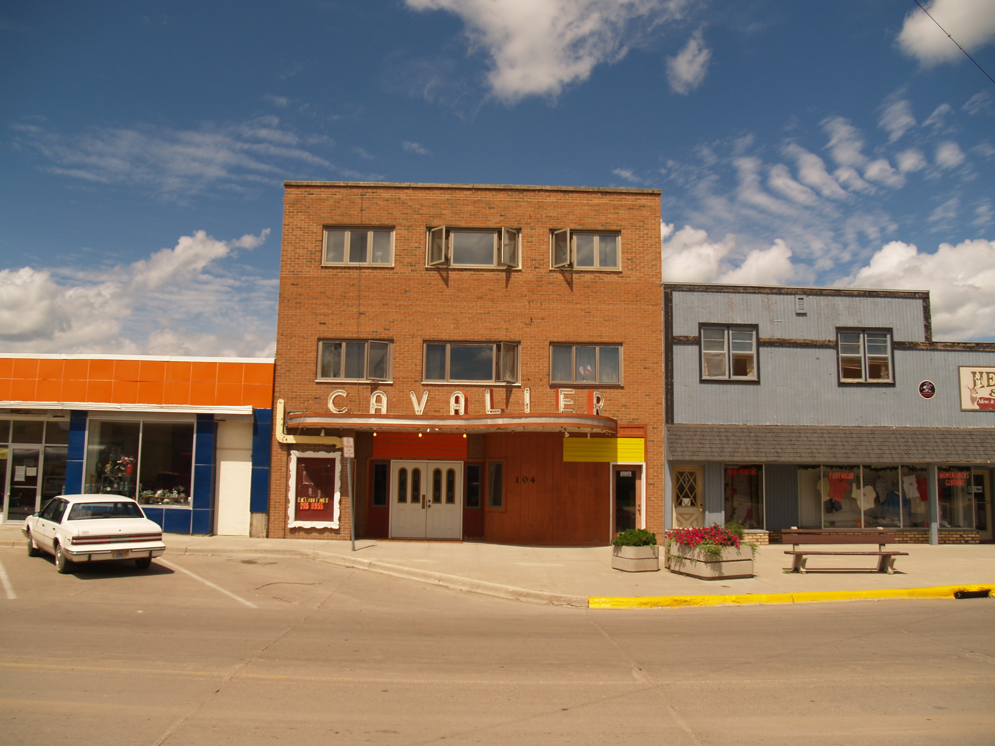 Cavalier, North Dakota